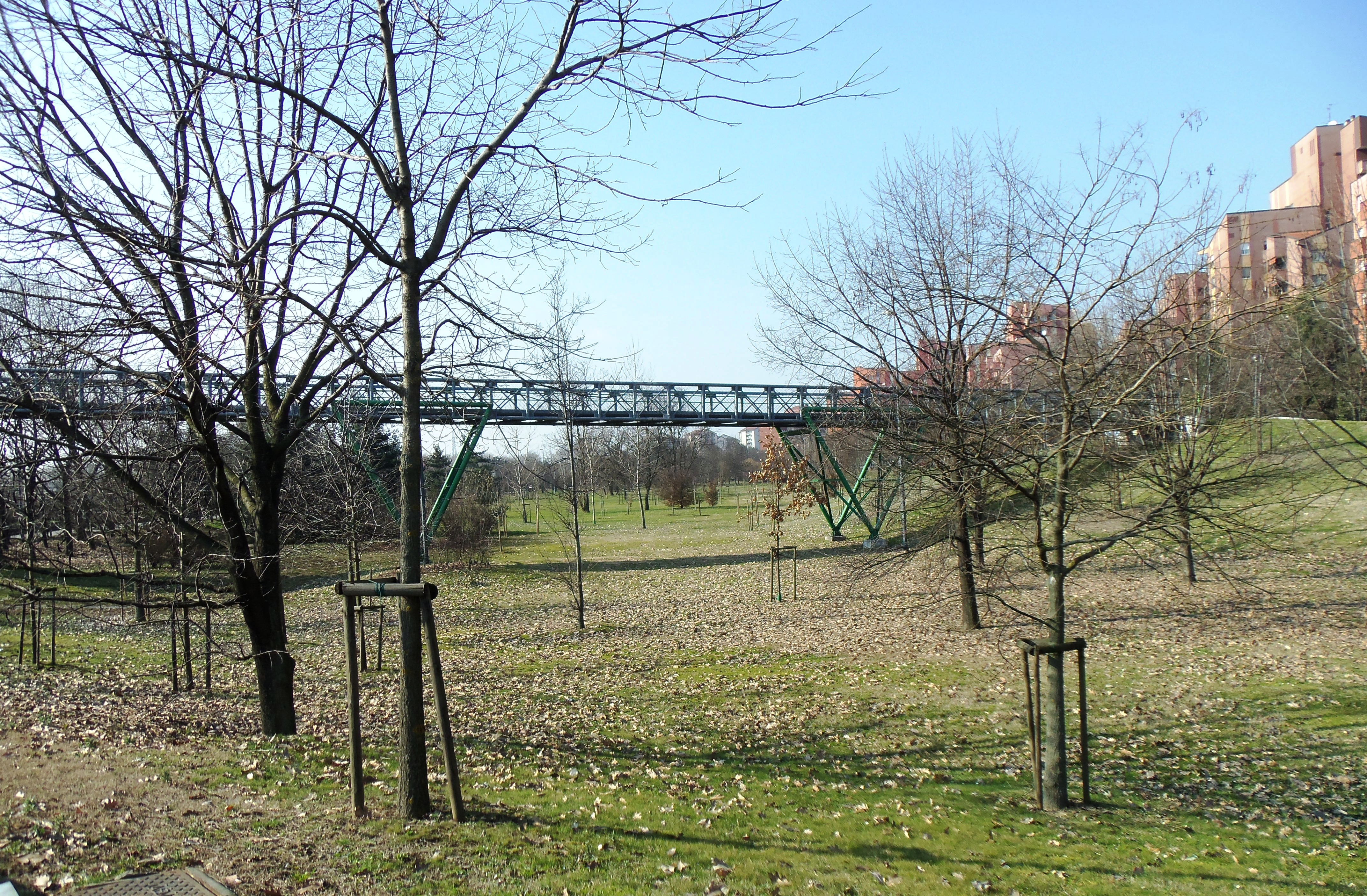 Milano, Valsesia park, the bike's bridge